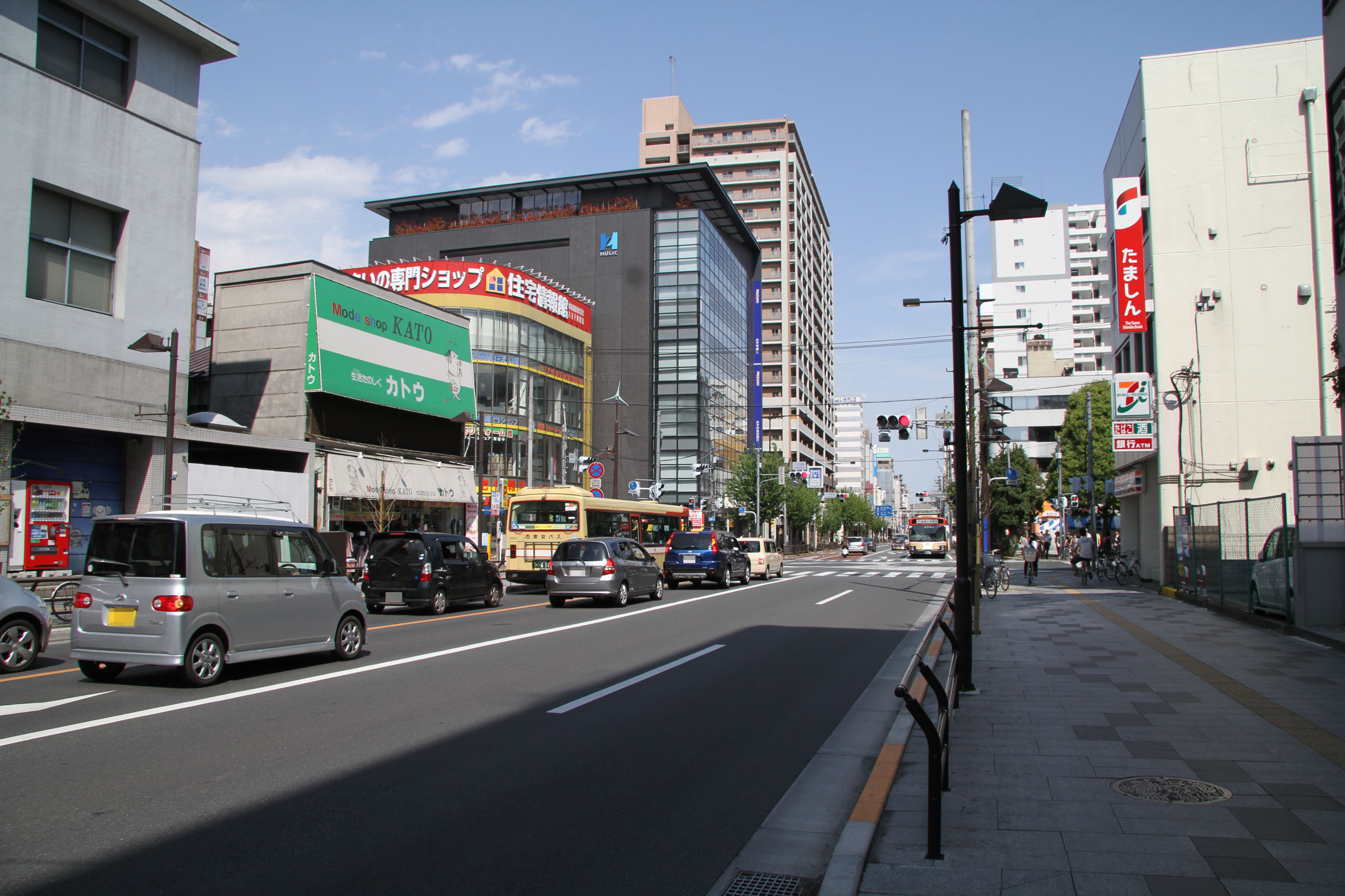 Route 20, Yokamachi, Hachioji, Tokyo, Japan